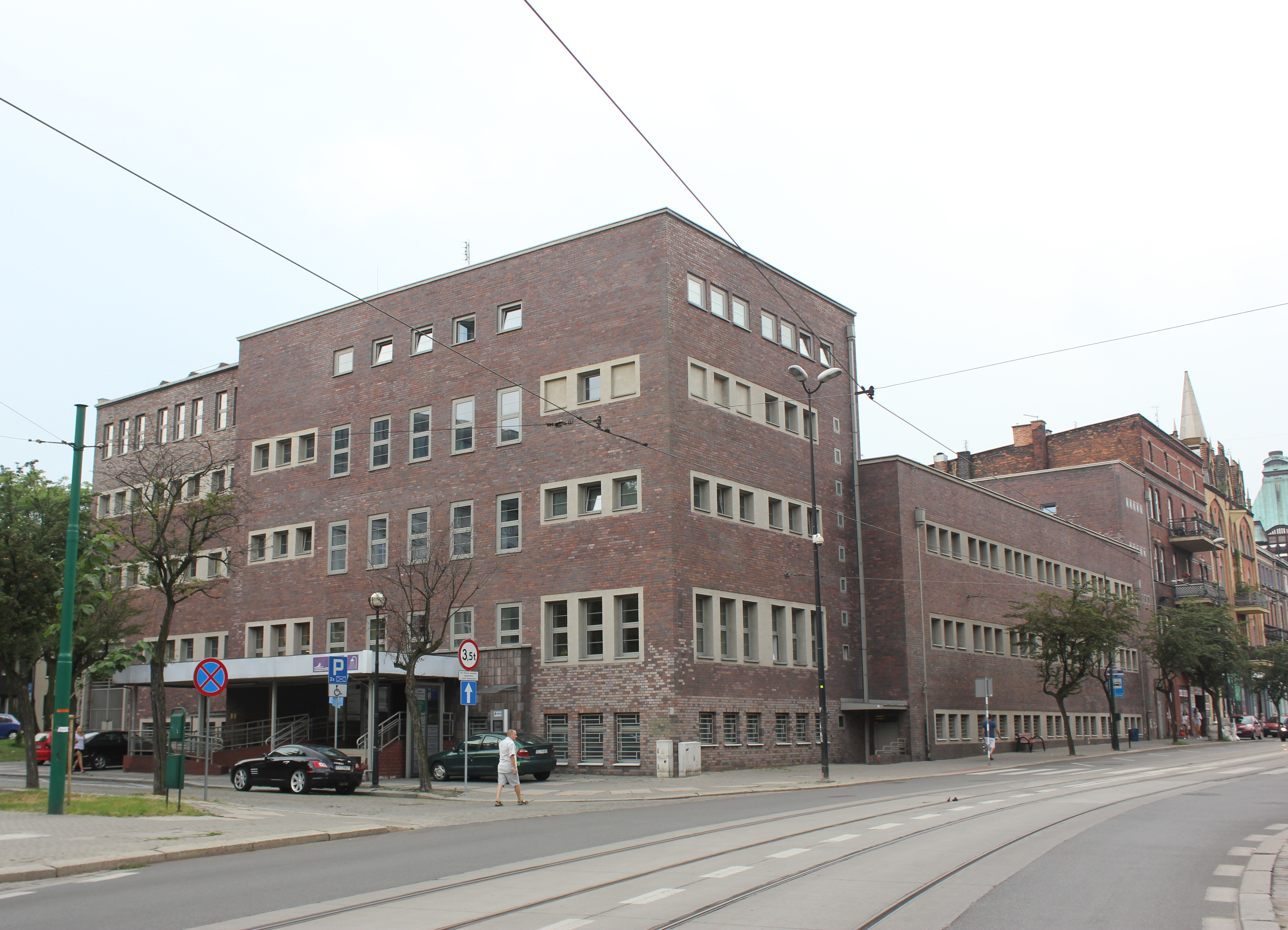 Zabrze - Municipal Pools